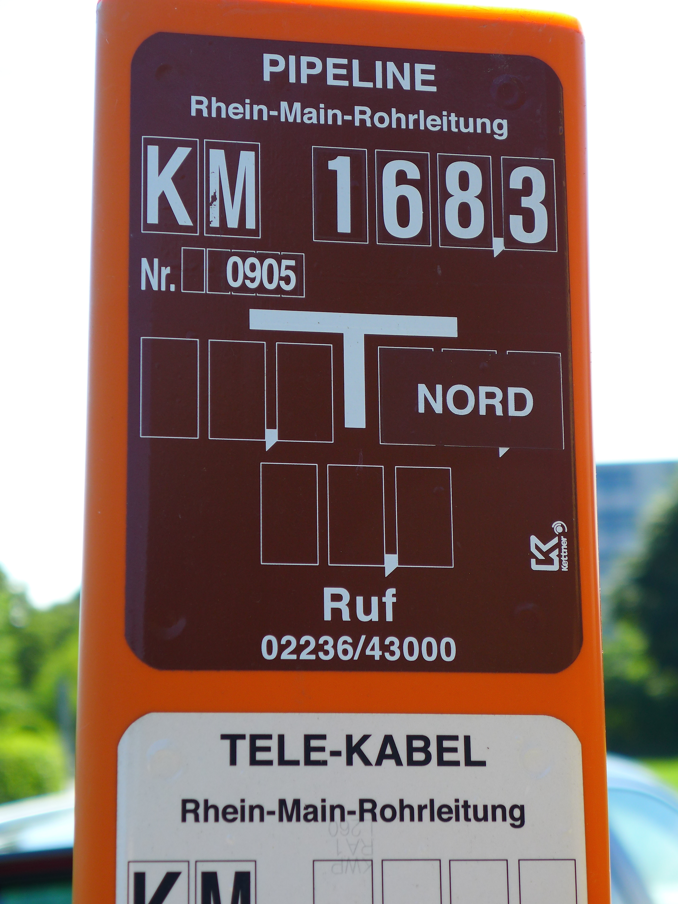 Reisholzstrasse, Hilden, North Rhine-Westphalia, Germany.